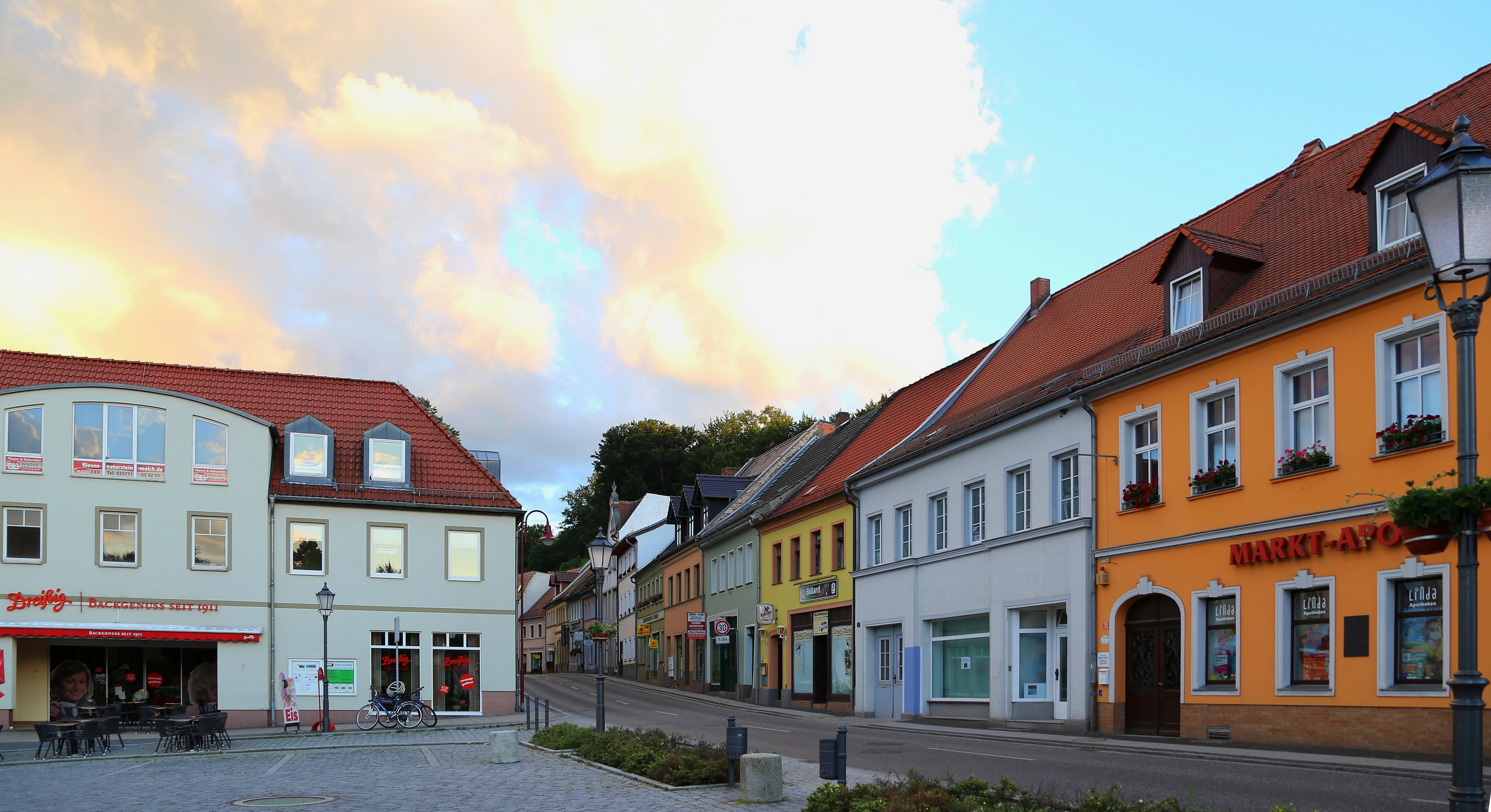 Market square of Bad Muskau, Landkreis Görlitz, Saxony, Germany.